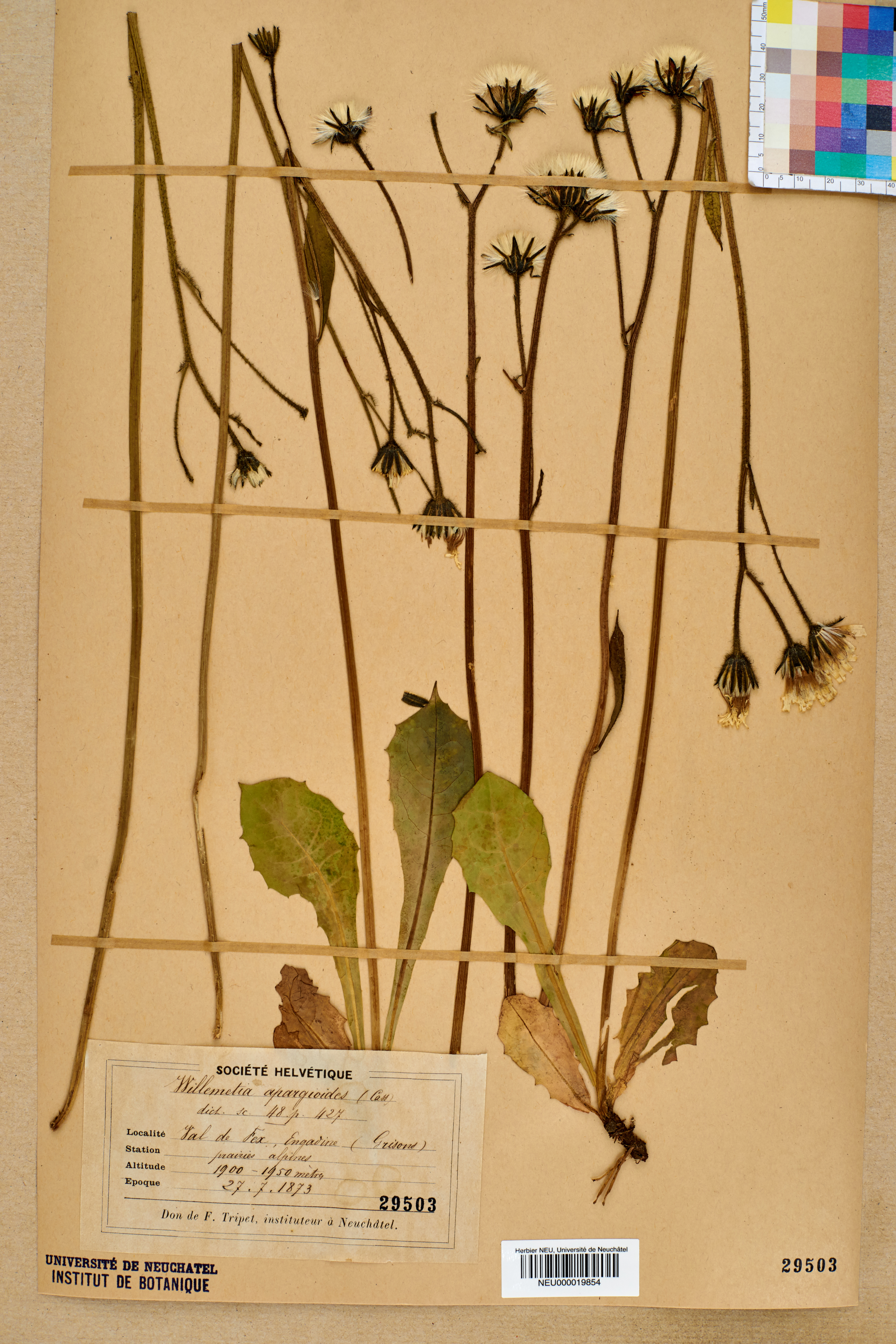 Dried pressed specimen of Willemetia stipitata